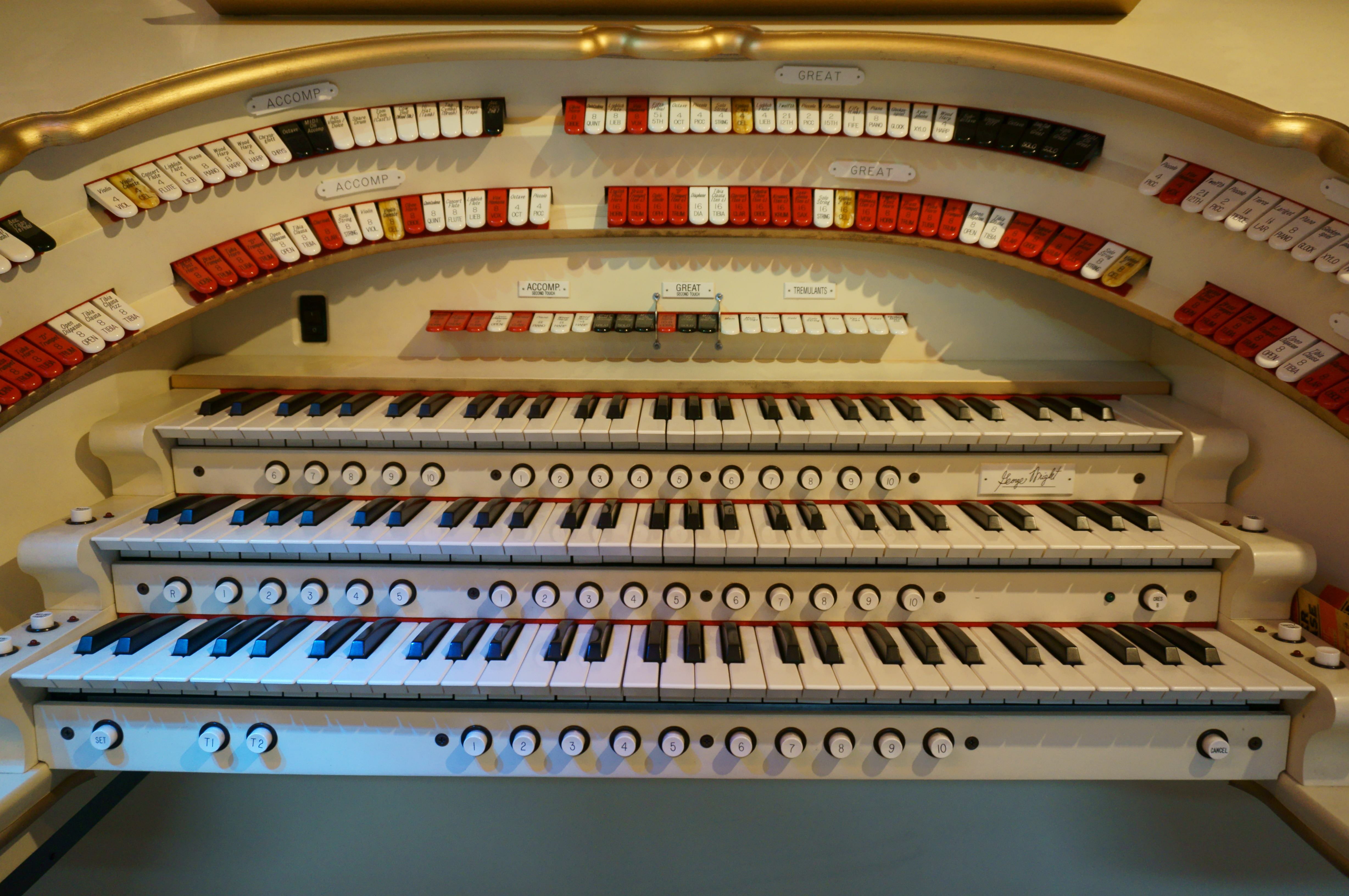 Allen George Wright Signature Series GW319EX Theatre Organ References Renaissance by Allen Theatre Organs / GW4 - 4 Manual / GW319EX - 3 Manual / GW319 - 3 Manual / R311 - 3 Manual / R211 - 2 Manual. Allen Organ Company (1999). (see also stop list)